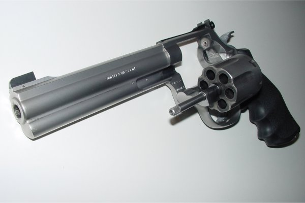 Smith & Wesson Model 686-3 Target Champion (6", modified)